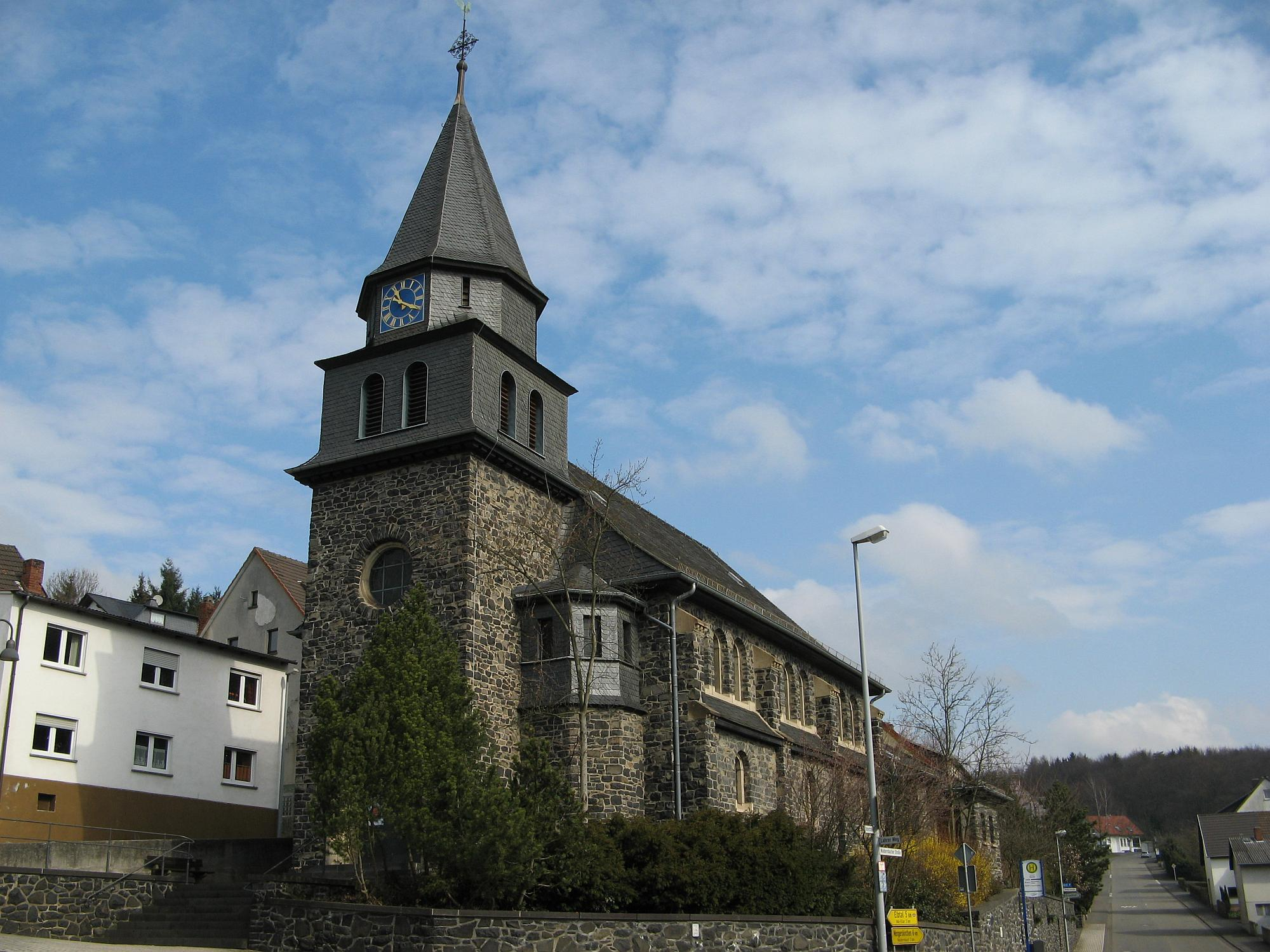 Catholic Church of St. Leonhard in Fussingen, Hesse, Germany. Built 1916-1918